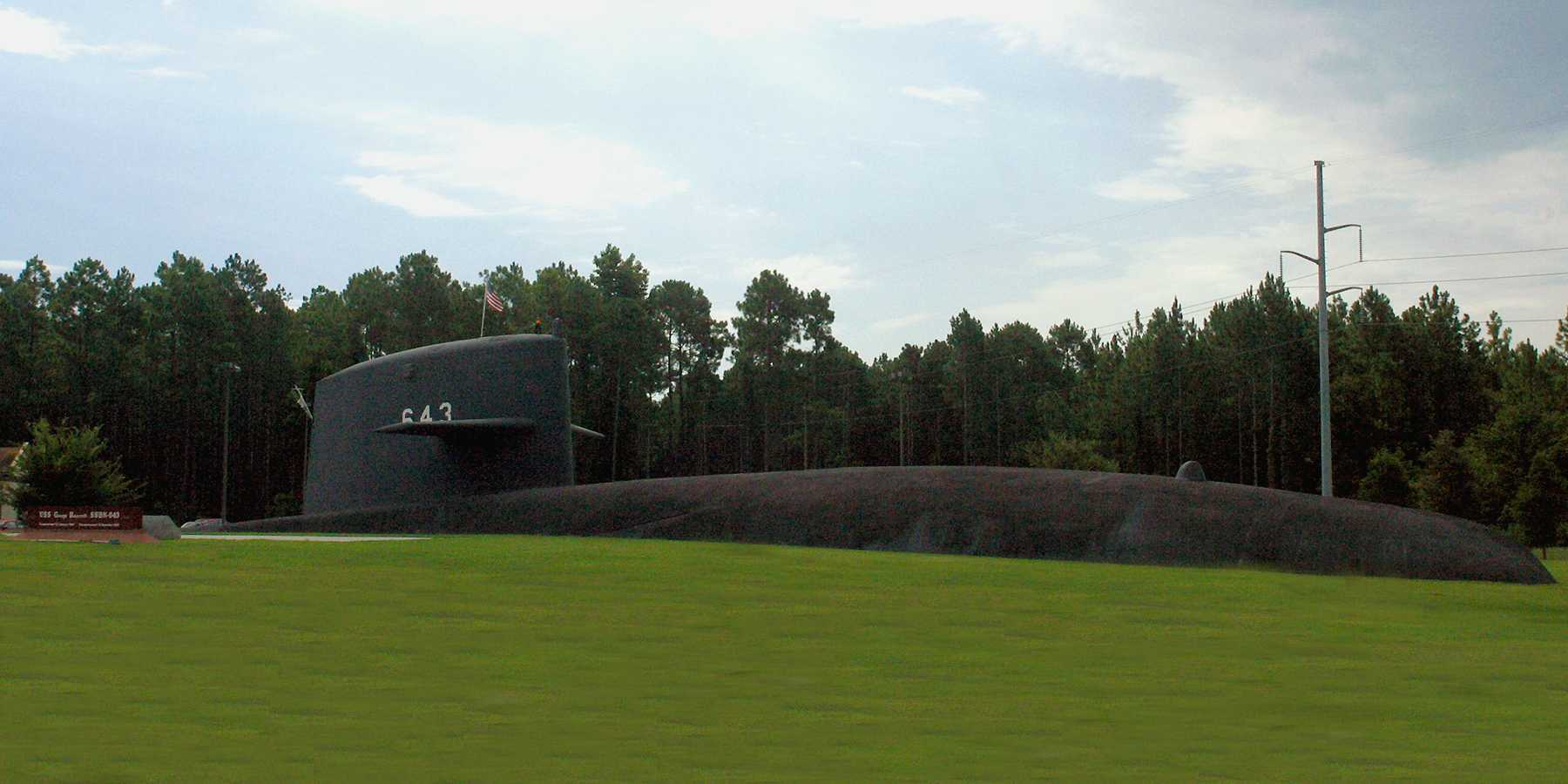 USS_Bancroft_sail